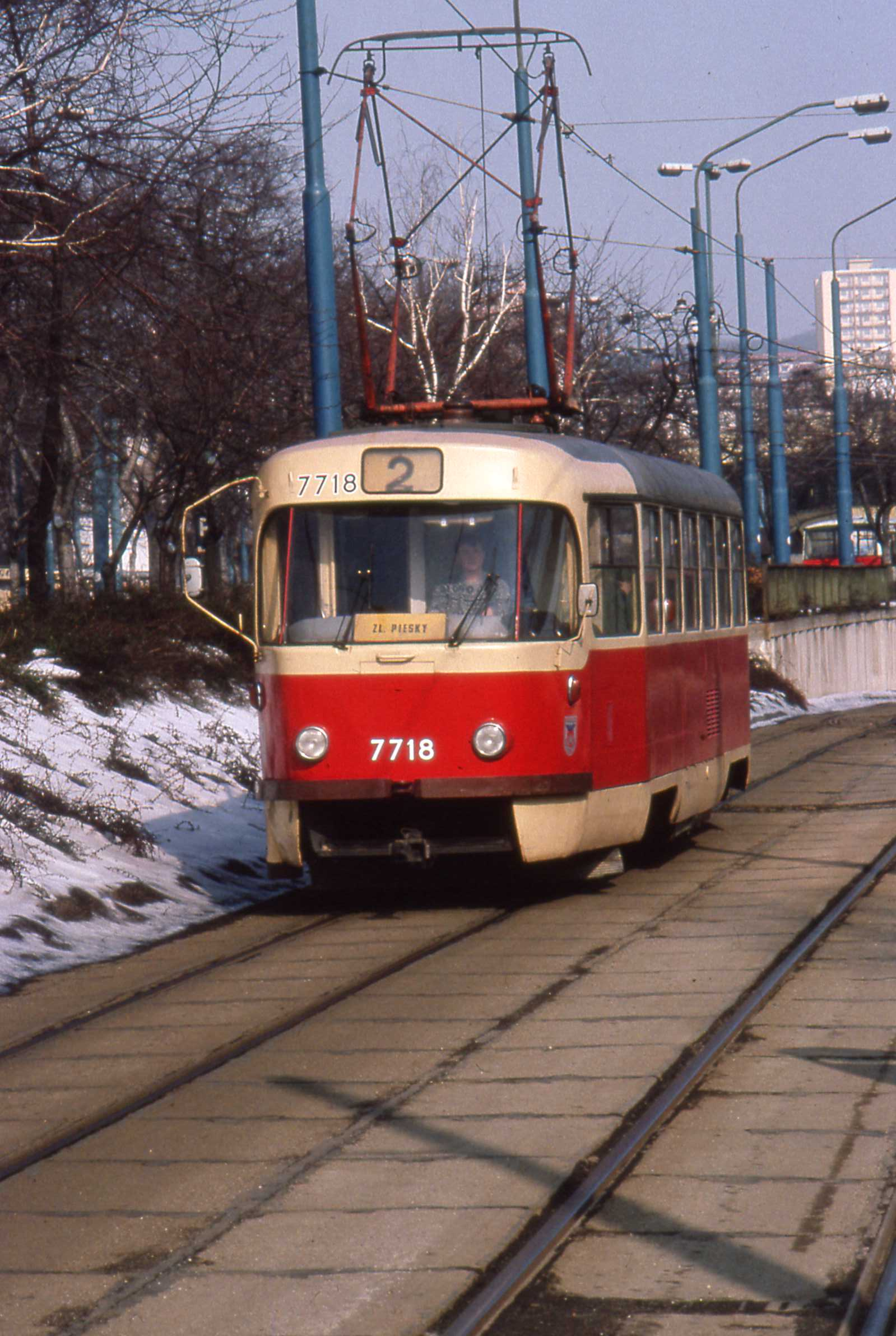 Tatra T3SUCS tram in Bratislava, Slovakia, 1993. As recorded on this site A Tatra T3SUCS tram dating from approximately 1983,one of 130 such vehicles put into service here. 7718 was new in 1982 as 718, and renumbered shortly afterwards as 7718. It was scrapped in 2008.